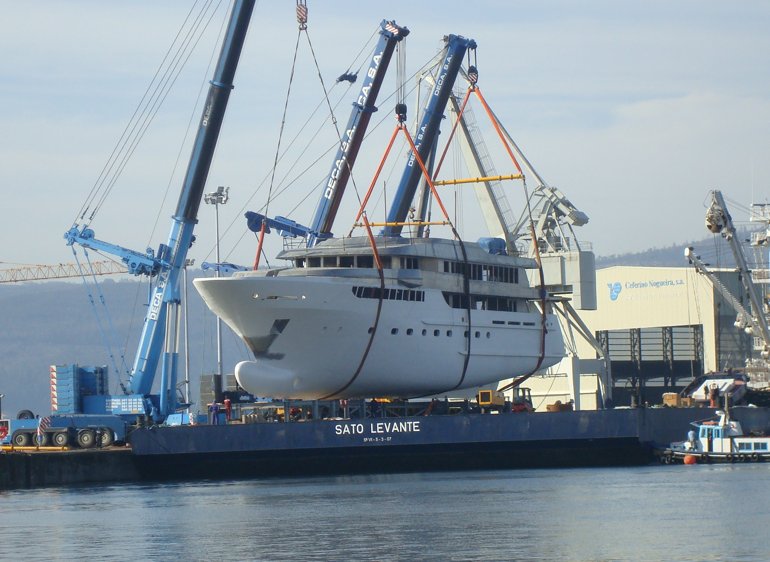 yatch